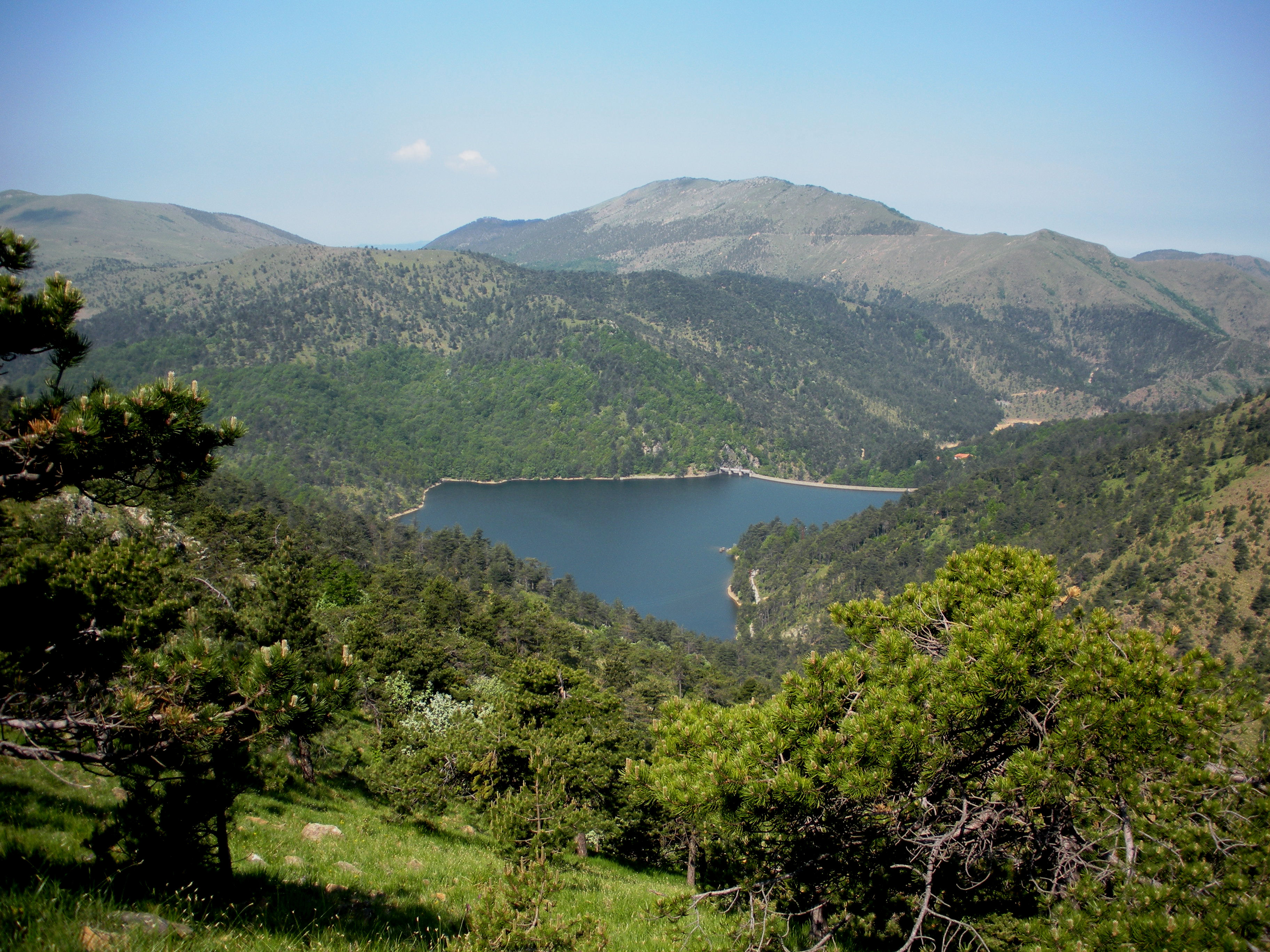 Gorzente Lakes (Campomorone, province of Genoa, Italy): Lake Lungo